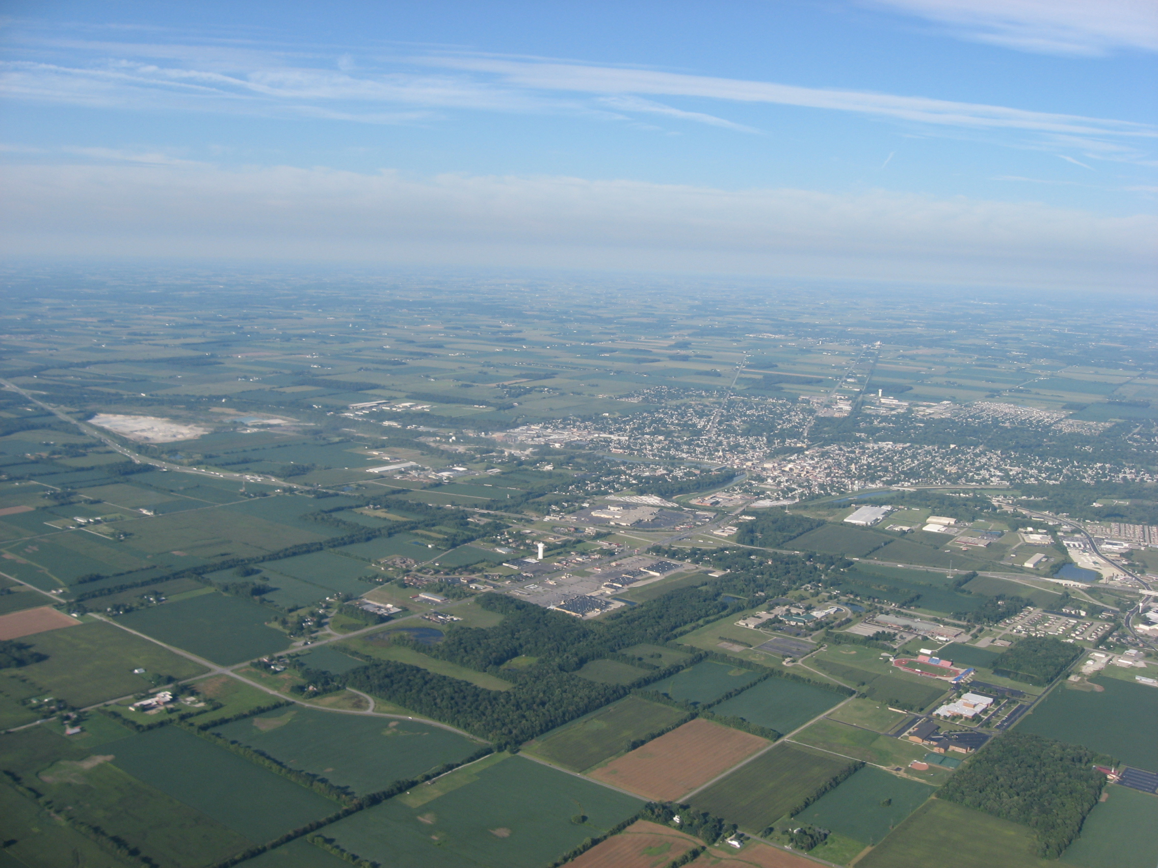 Aerial view of Piqua, a city in Miami County, Ohio, United States. Interstate 75 is the major highway running from side to side in the middle of the picture. Picture taken from a Diamond Eclipse light airplane at an altitude of 4,450 feet MSL and a bearing of approximately 235º.